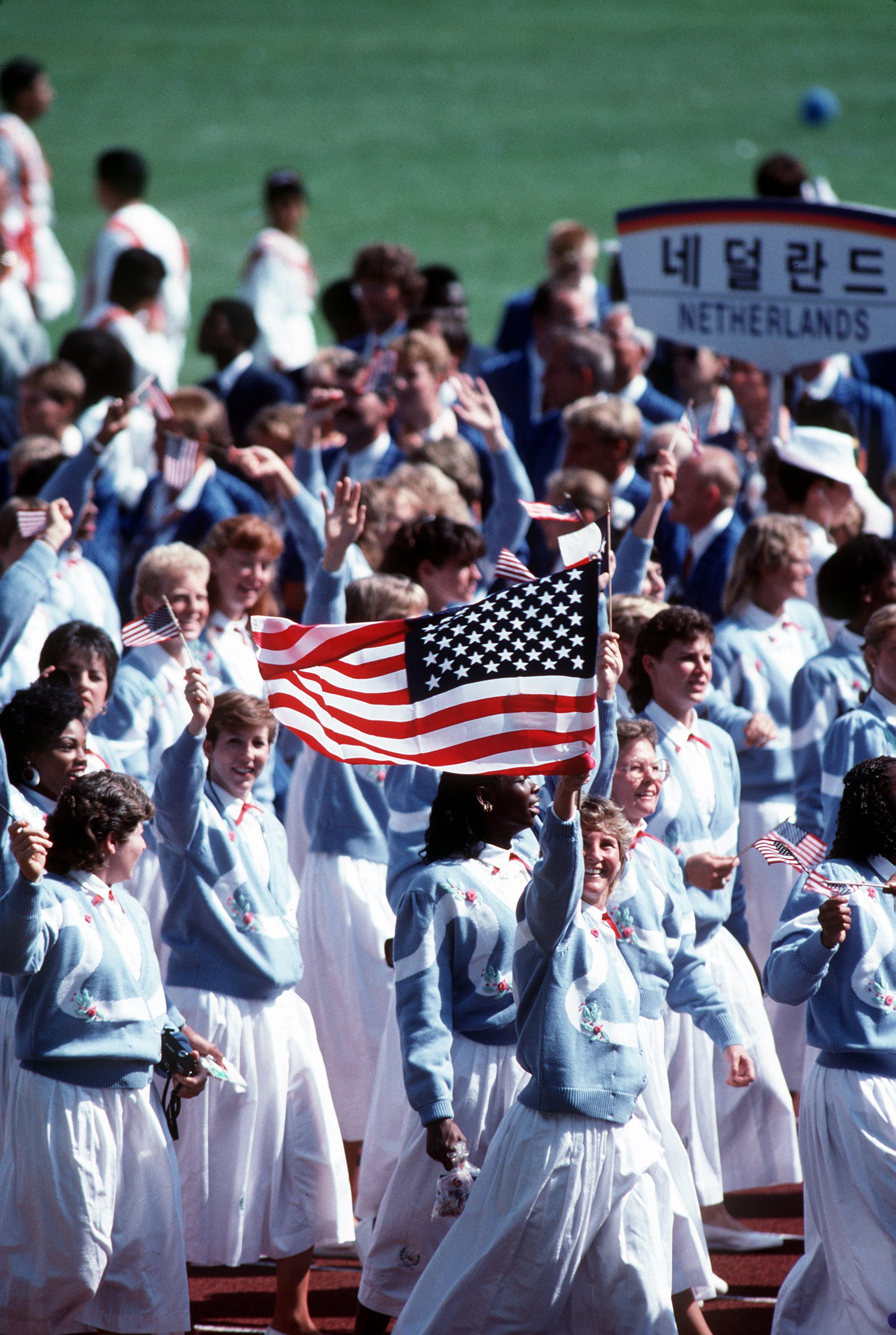 The American delegation walks into the Olympic Stadium during opening ceremonies of the 24th Olympiad.